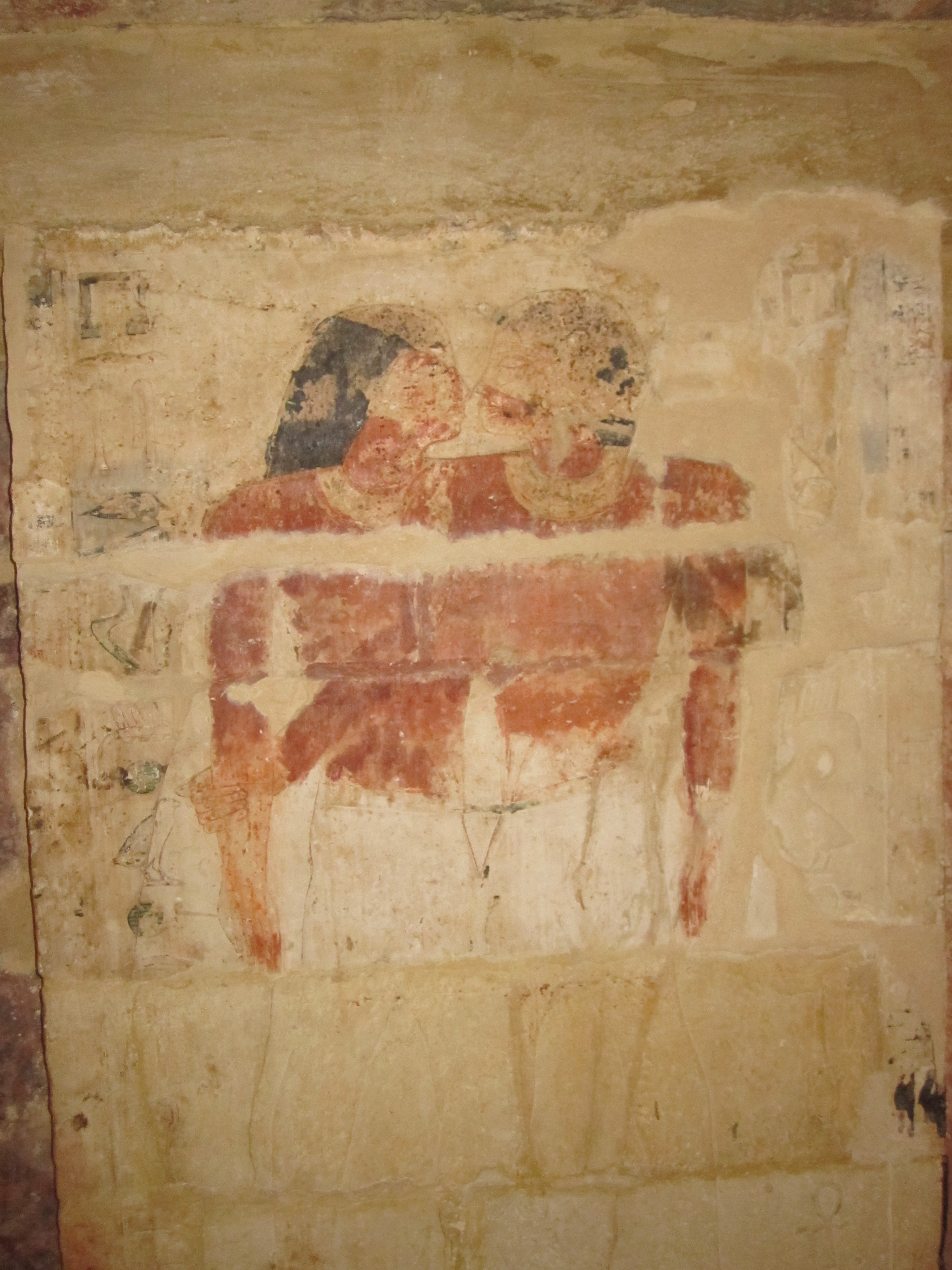 Niankhkhnum and Khnumhotep are depicted embracing one another in this scene from their joint mastaba (tomb). The two men are speculated to be lovers, although some Egyptologists argue that they may have been brothers or twins. More information about the mastaba can be found here. See this map for the mastaba's location in the sector of the Pyramid of Unas, and this map for its location within the broader North Saqqara necropolis.